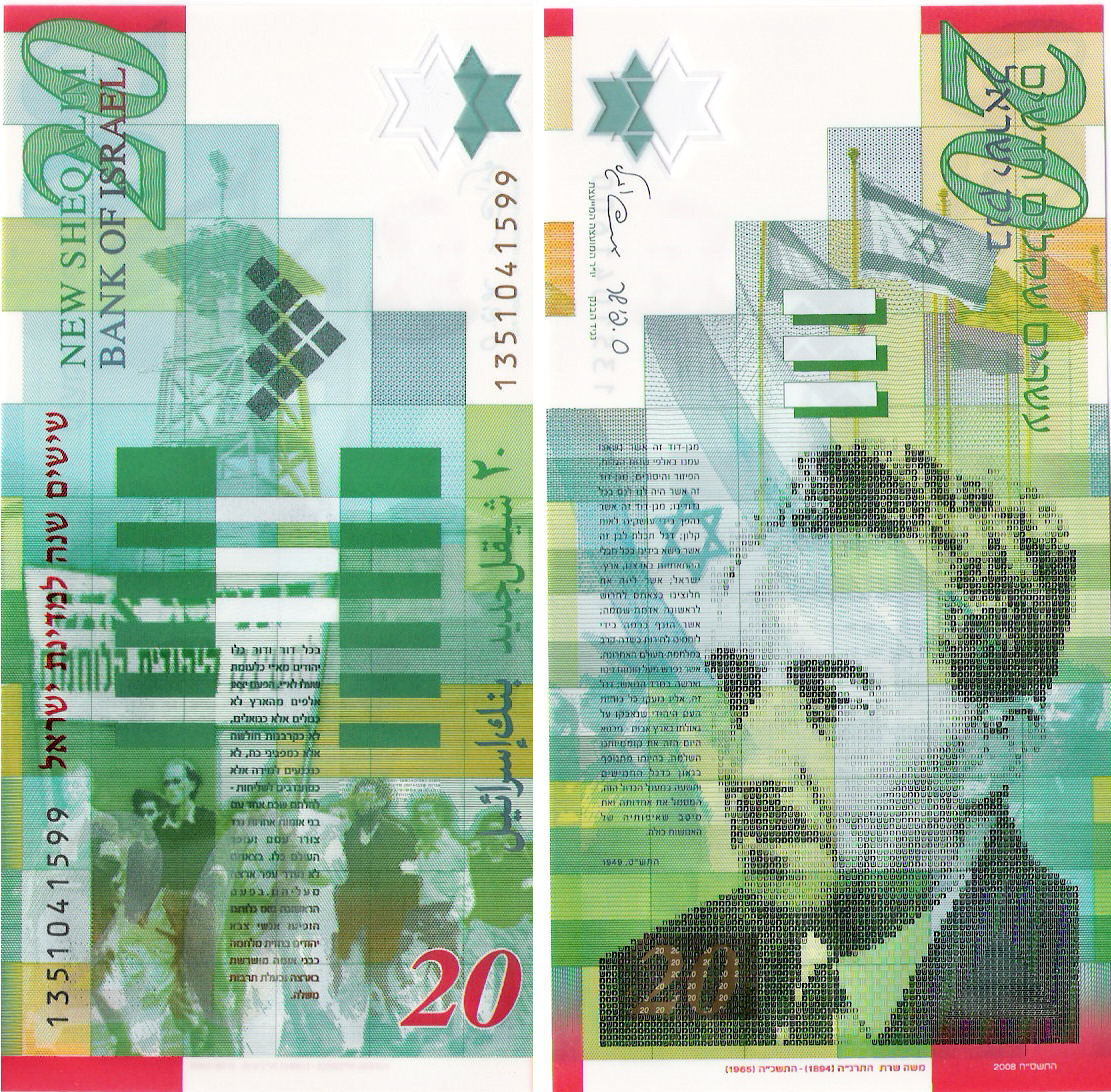 Obverse & Reverse side of a 20 NIS bill, made of polypropylene.